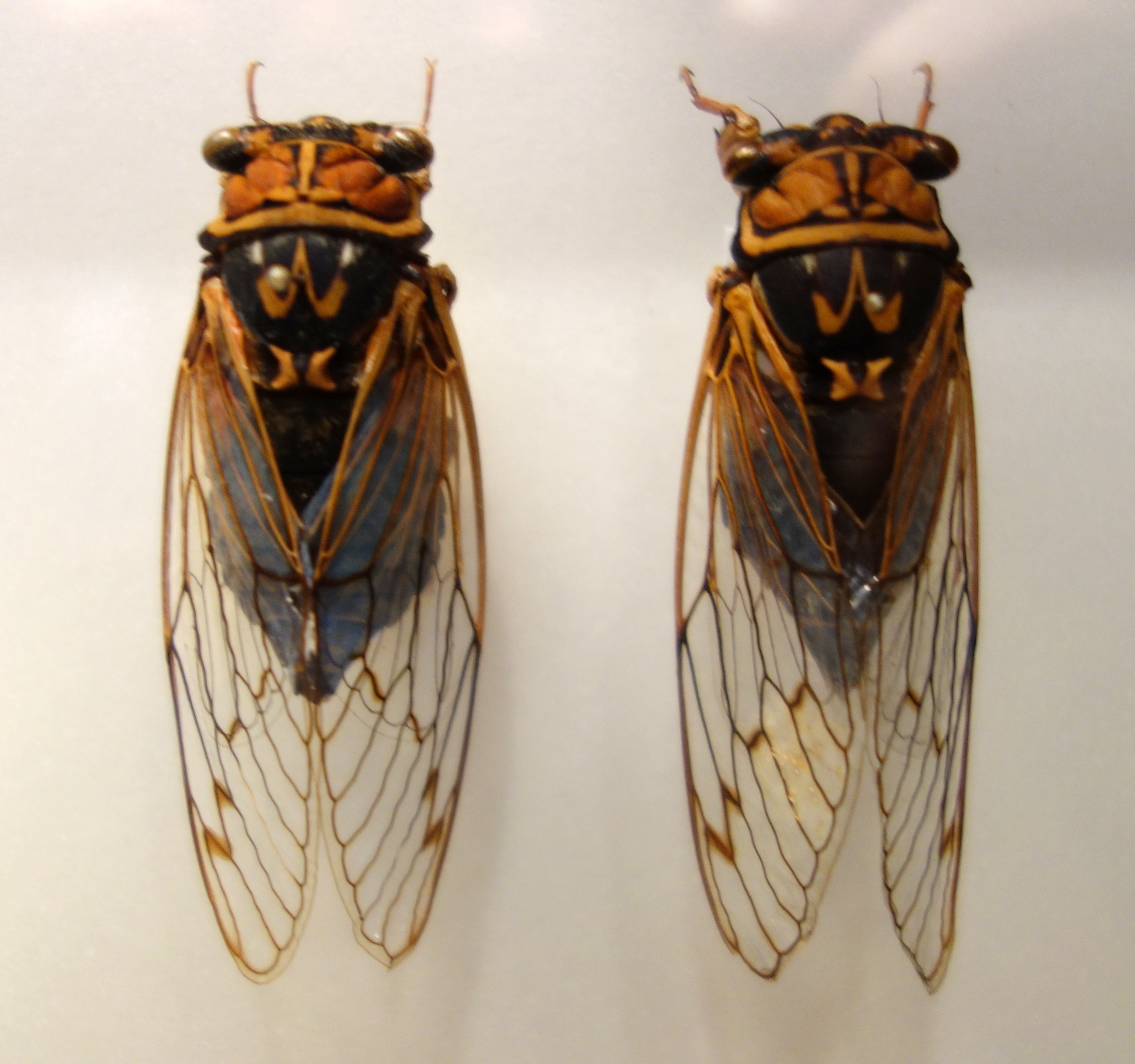 Exhibit in the National Museum of Nature and Science, Tokyo, Japan.